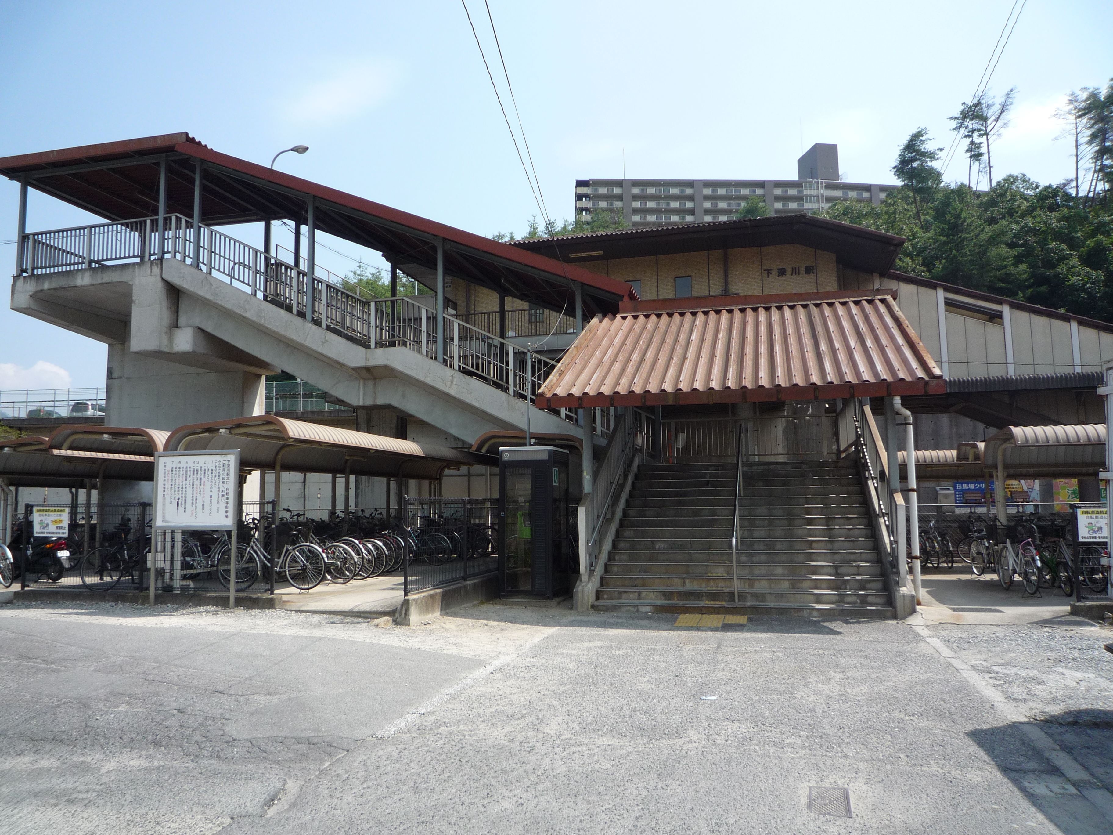 Shimo-Fukawa Station